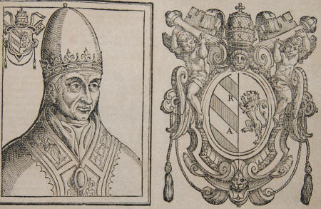 Pope Nicolaus II and his coat of arms